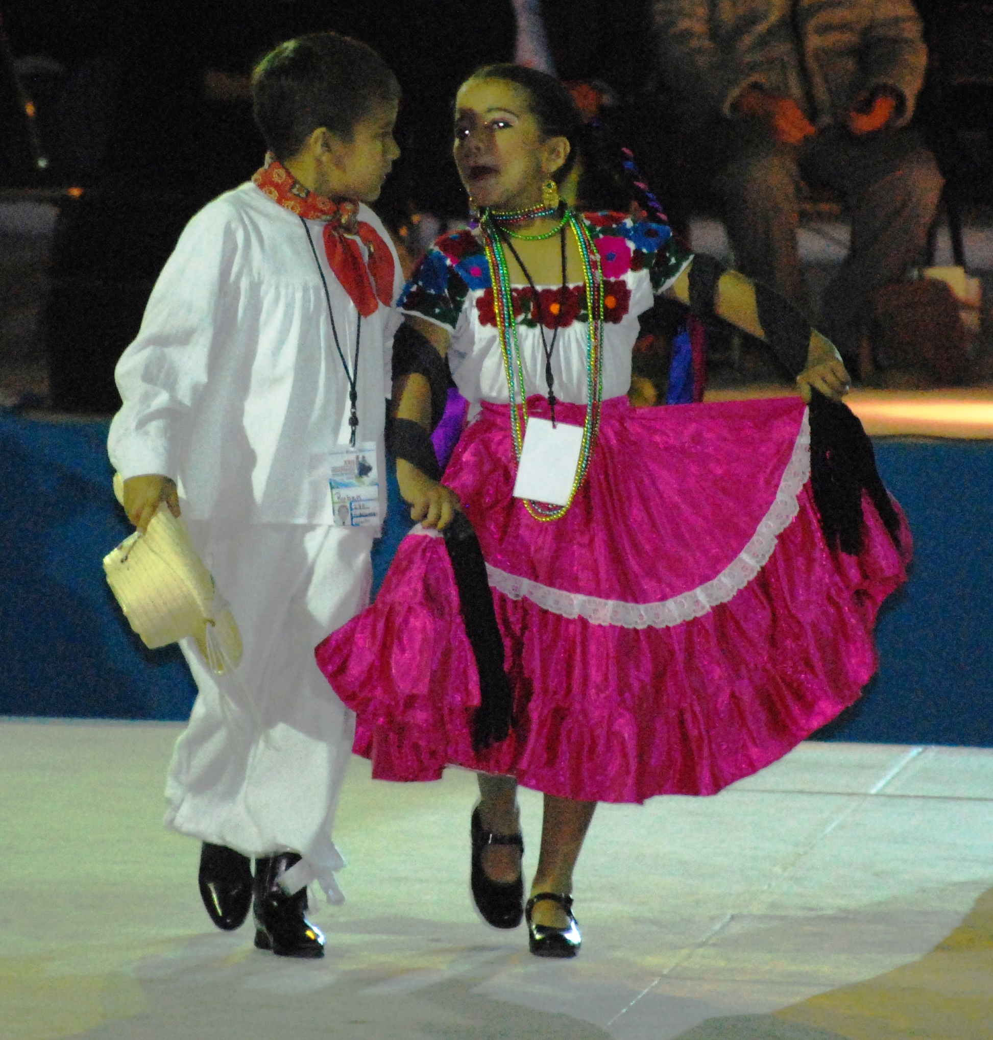 Dancers at the 2011 Concurso National de Baile Huapango in Pinal de Amoles, Querétaro, Mexico